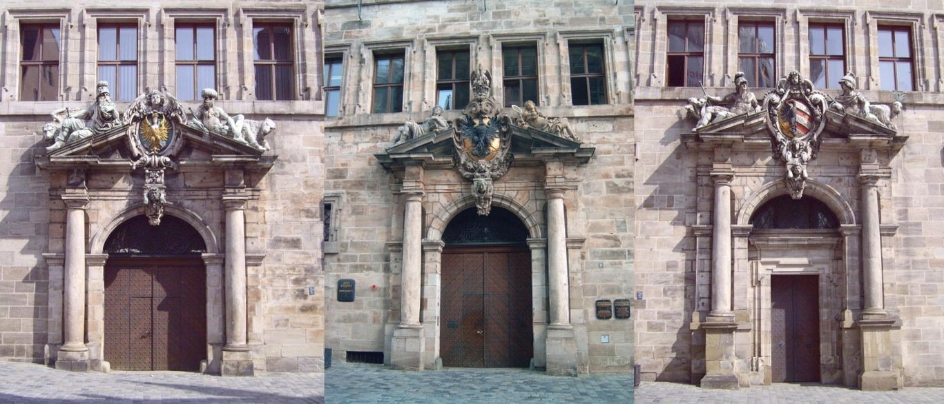 Gates from the Town Hall of Nuremberg.